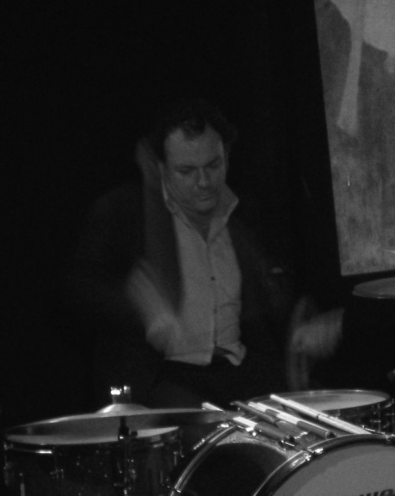 Jim White of Dirty Three, 2008